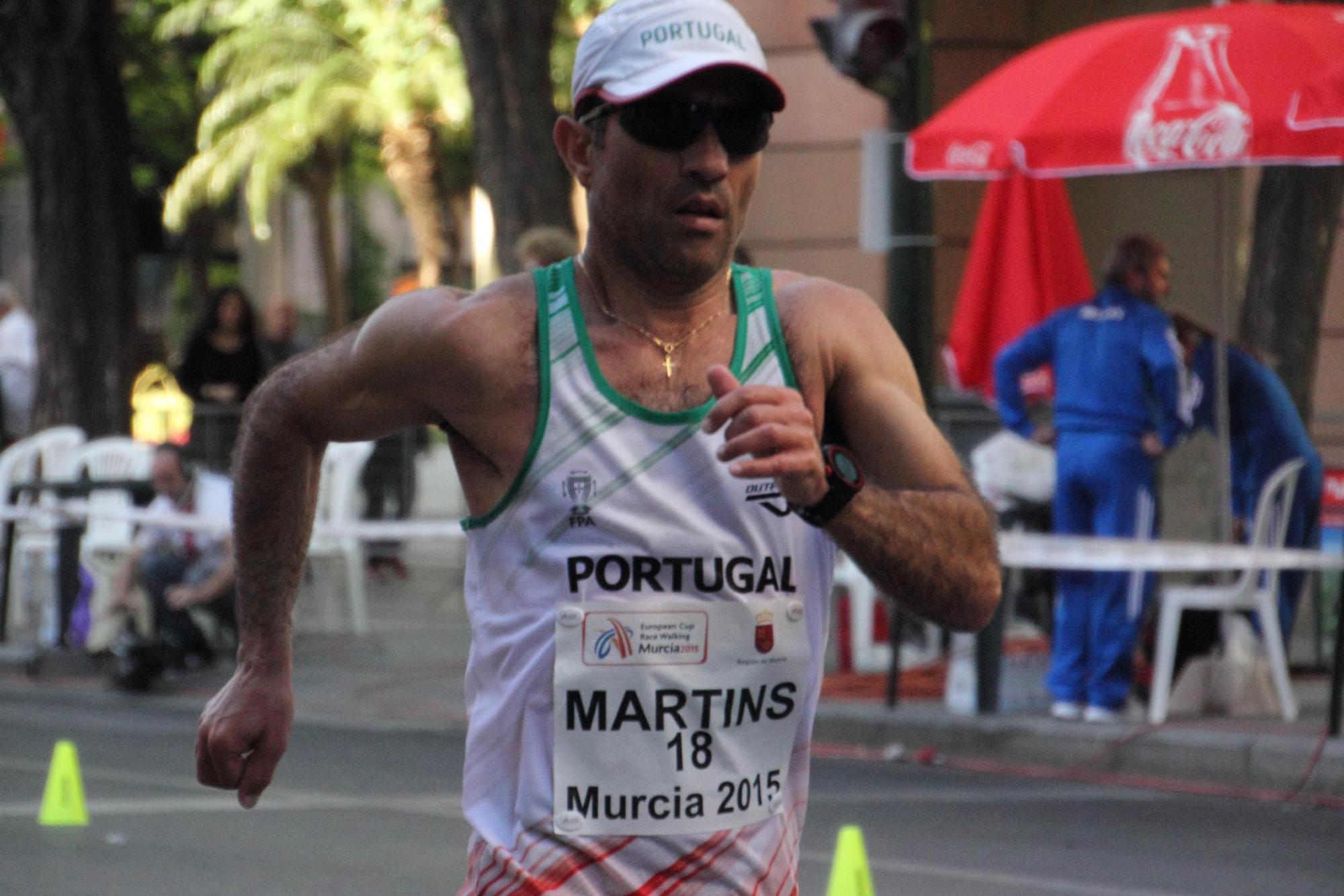 18-Pedro Martins (POR) in the European Cup Race Walking 2015 (Murcia, Spain).